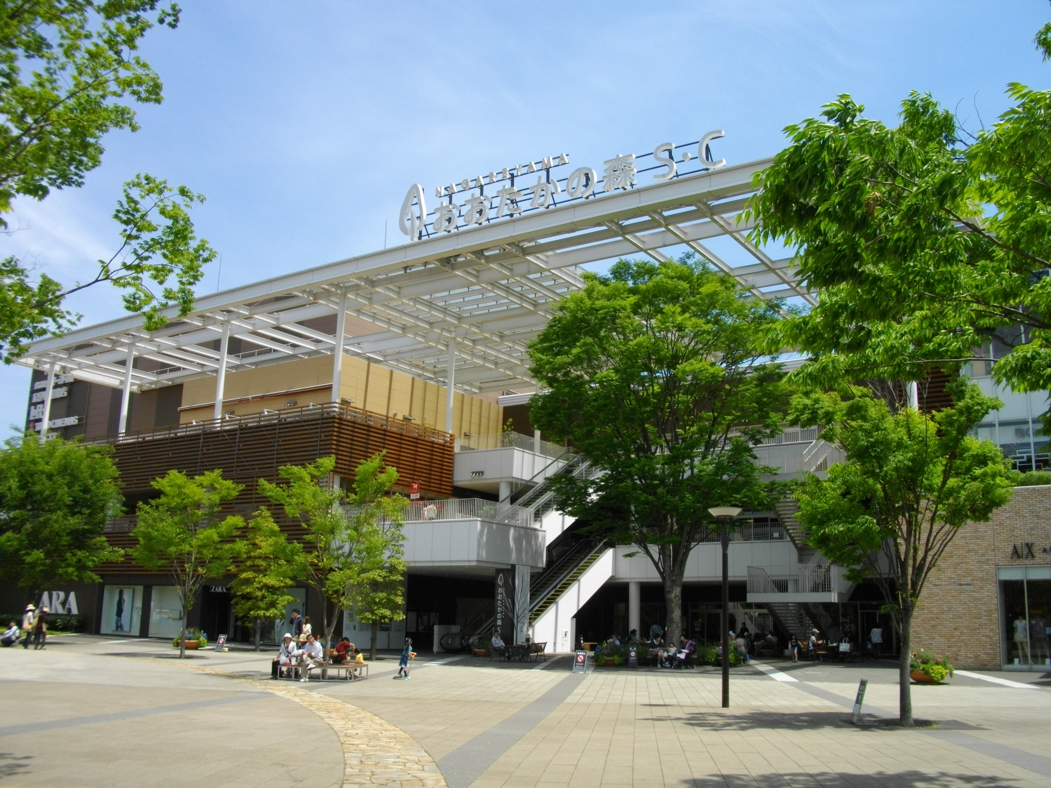 Nagareyama-Otakanomori S. C.